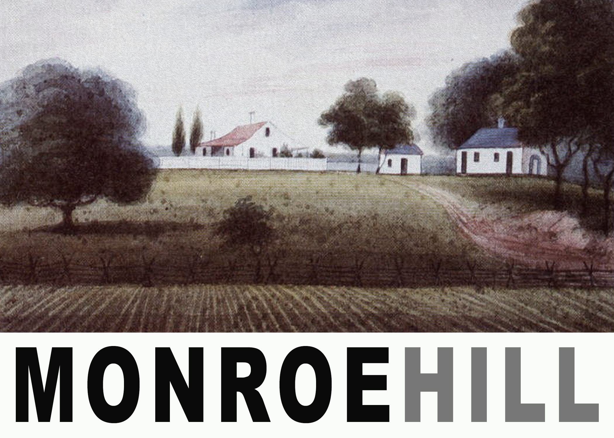 This is the esencial Key Art expression for the documentary film Monroe Hill. It is meant for use with and in connection with the film.